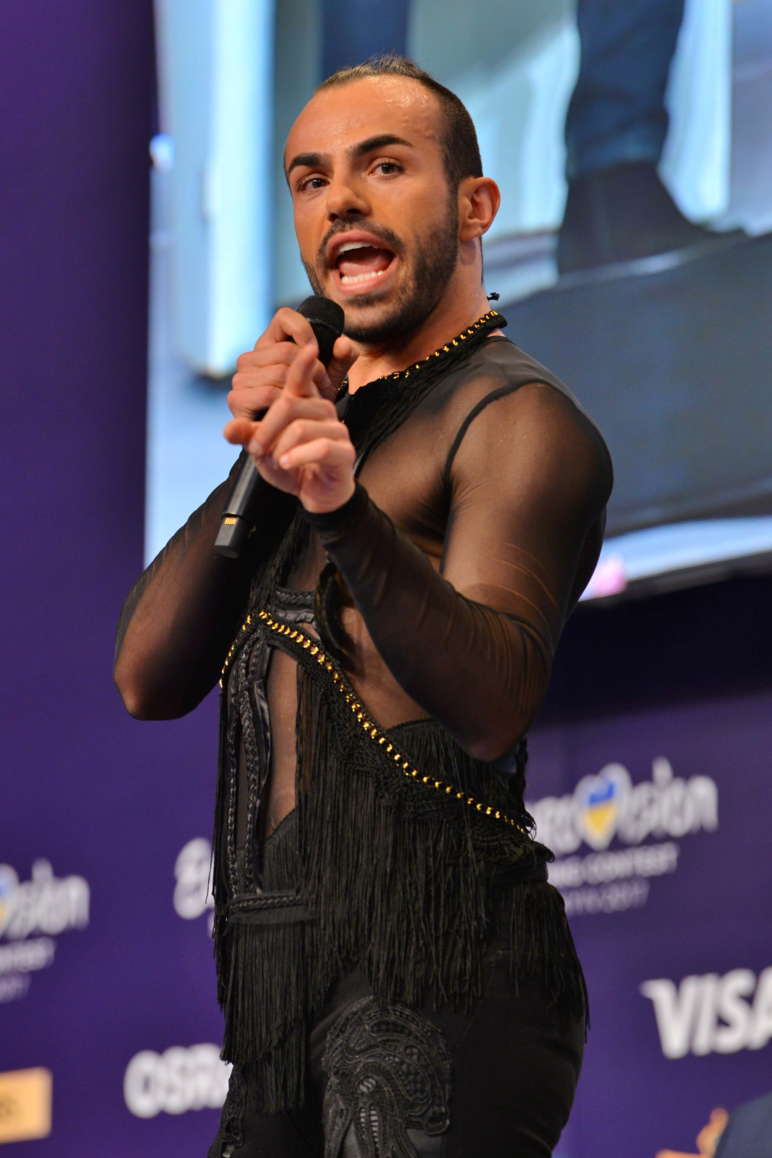 Slavko Kalezić on Eurovision Song Contest 2017